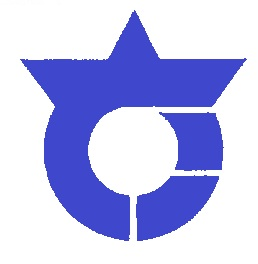 Takamori Nagano chapter